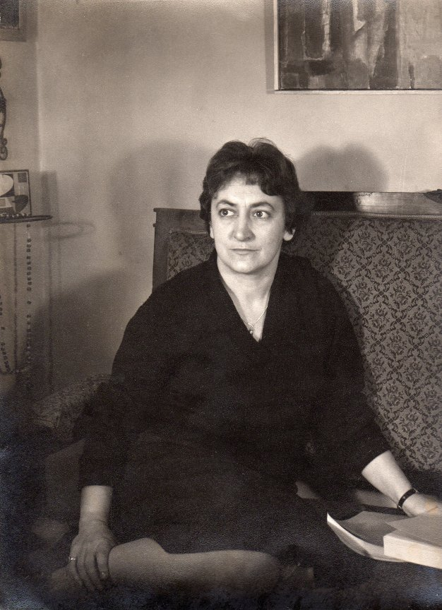 Maria Aurèlia Capmnay i Farnés